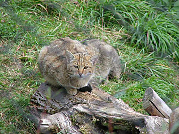 Wild cat (Felis silvestris) Wildkatze im St. Galler Wildpark Peter und Paul photo taken by: Martin Steiger date: Sep 28, 2003 first upload: Sep 28, 2003 - Wikipedia, by User:Waltram